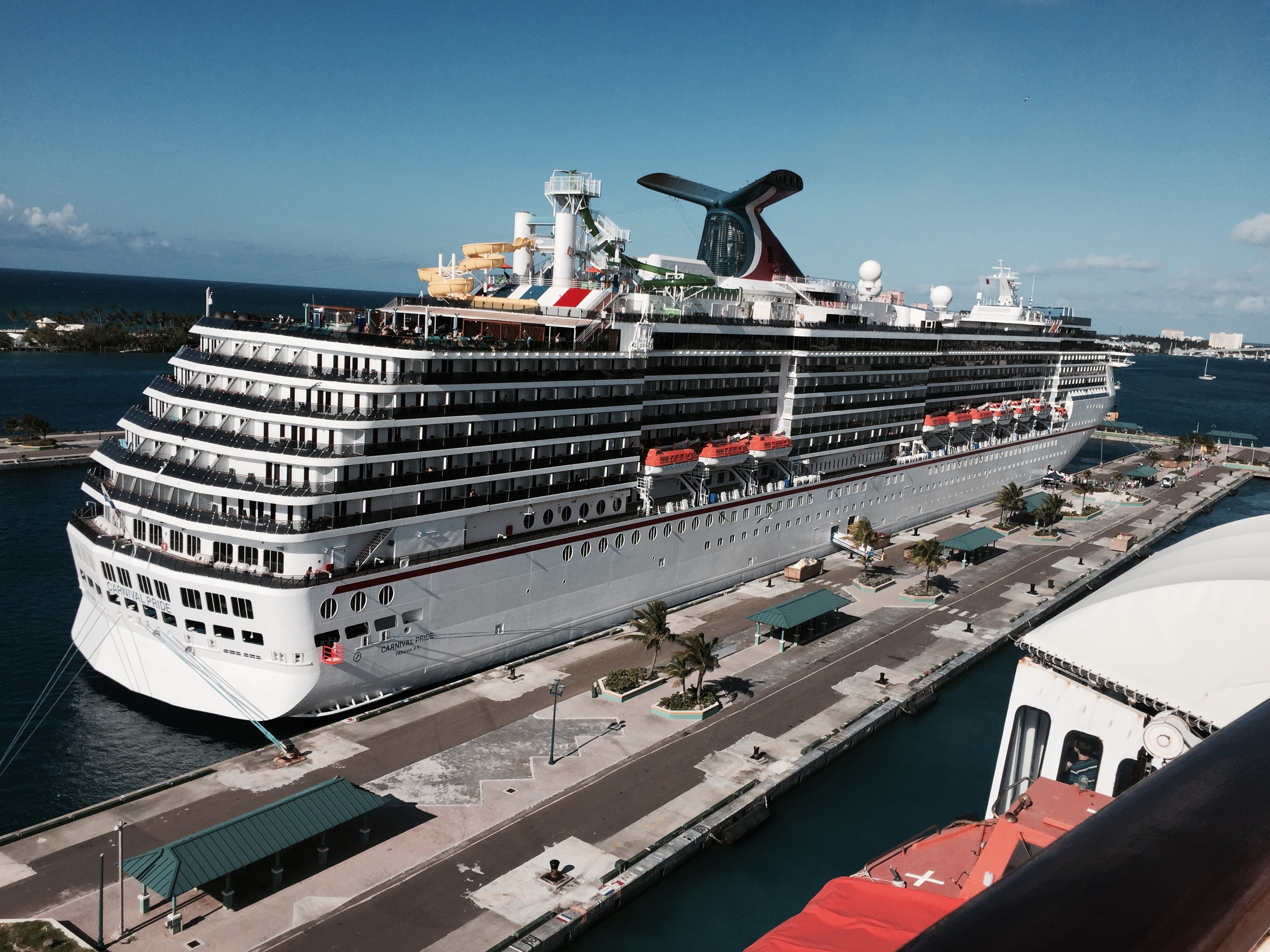 Cruise ship Carnival Pride docked in Nassau, the Bahamas. Stern quarter view. Viewed from the deck of the Carnival Fantasy as it was leaving port.